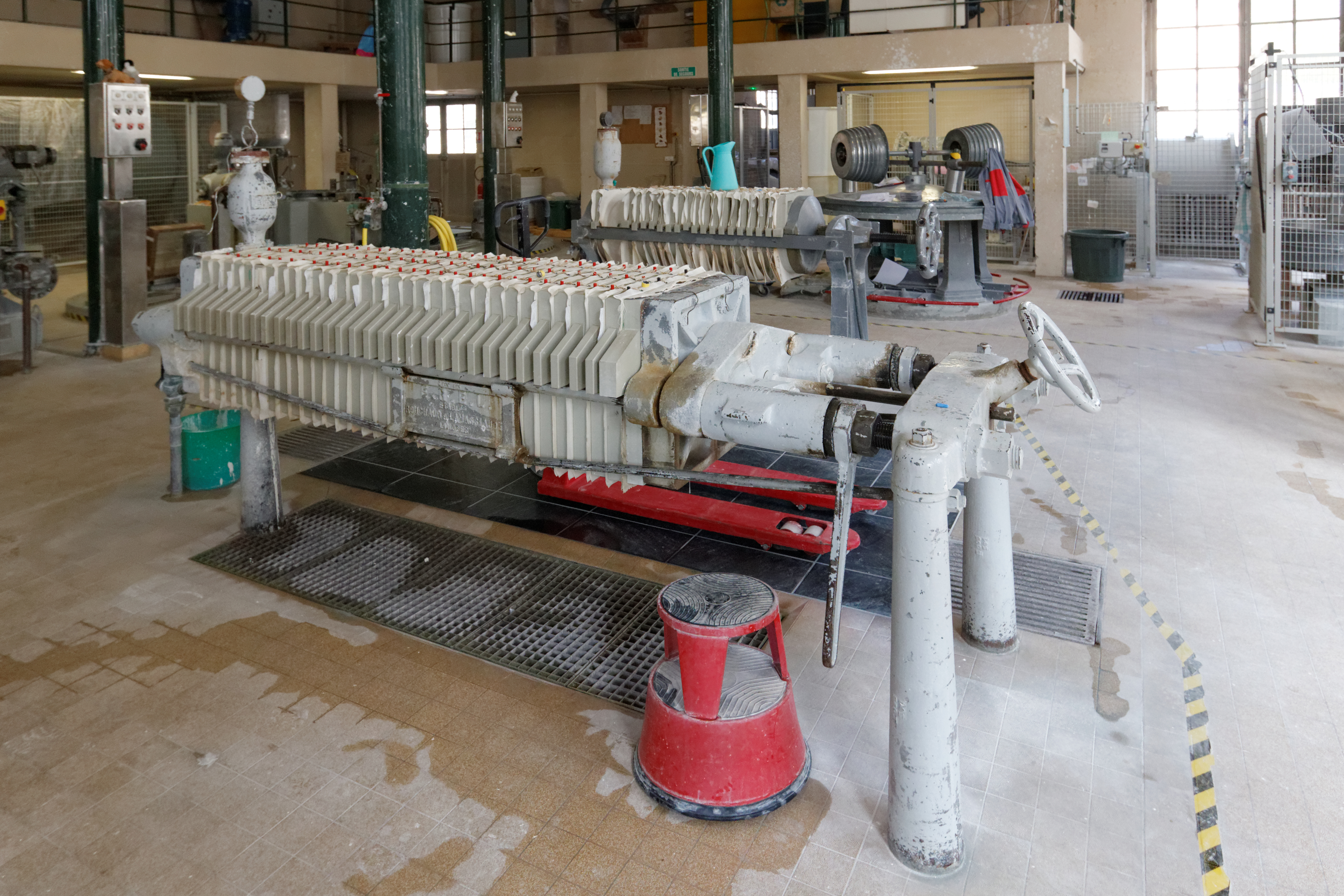 Filter press of the Mill workshop of the manufacture nationale de Sèvres